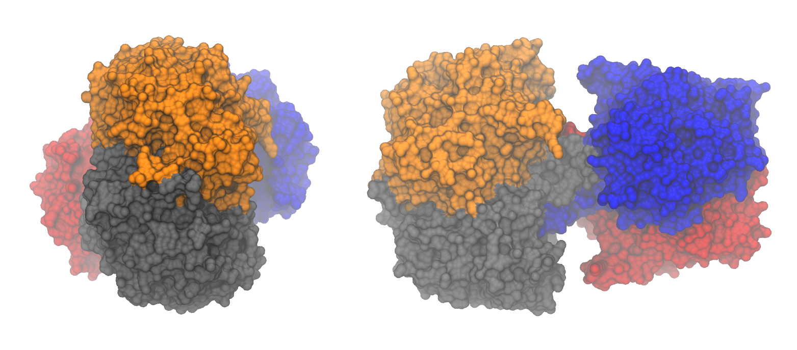 Surface models (top, side) of human acetyl-CoA acetyl transferase 1 tetramer, after PDB 2IBW. Ref.: Haapalainen AM, Meriläinen G, Pirilä PL, Kondo N, Fukao T, Wierenga RK (April 2007). "Crystallographic and kinetic studies of human mitochondrial acetoacetyl-CoA thiolase: the importance of potassium and chloride ions for its structure and function". Biochemistry 46 (14): 4305–21. PMID 17371050. This image was created with VMD